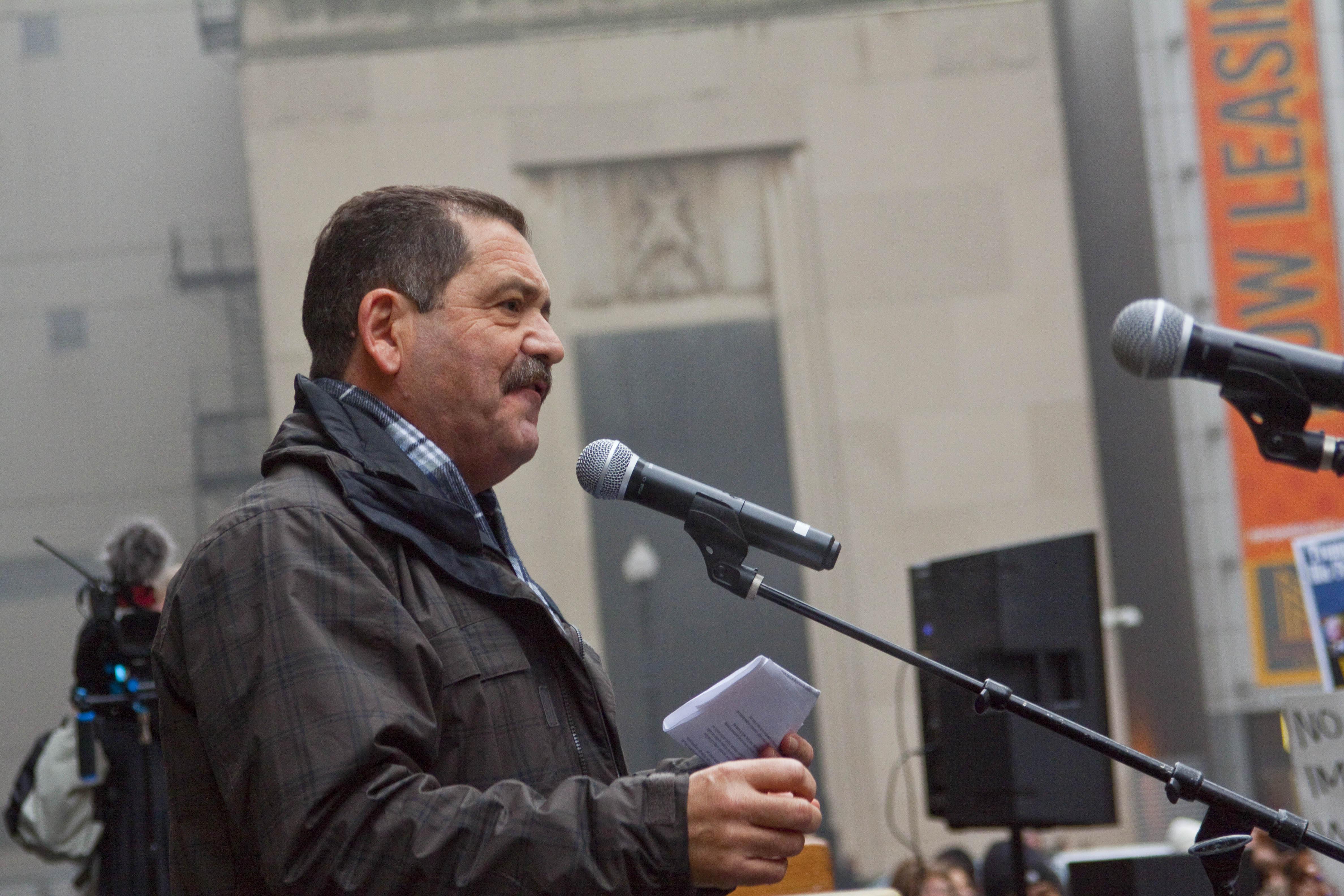 Jesus Chuy Garcia Speaks Resist Trump Chicago 1-20-2017 5222